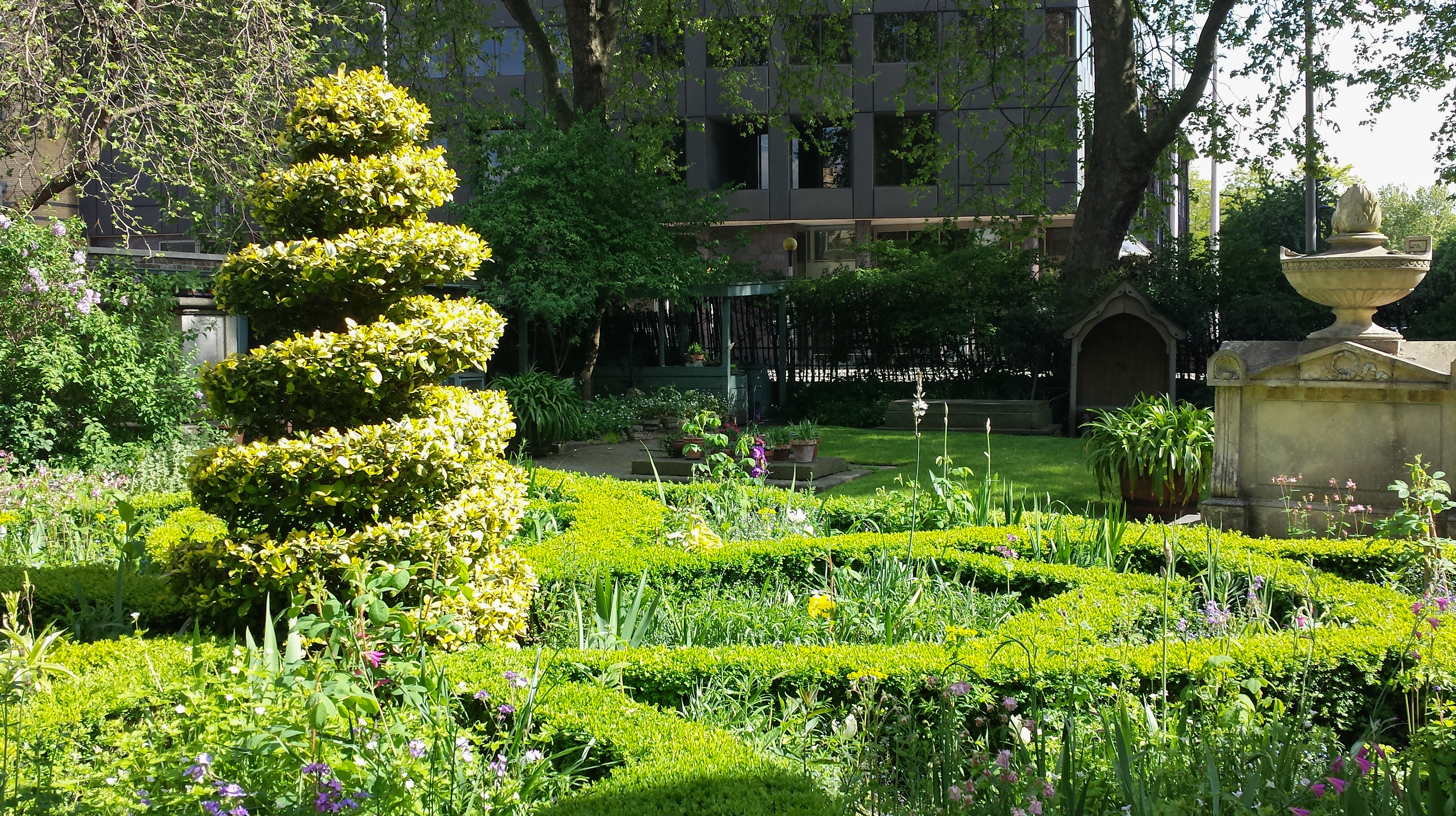 The knot garden at the The Garden Museum, Lambeth, London, in 2015